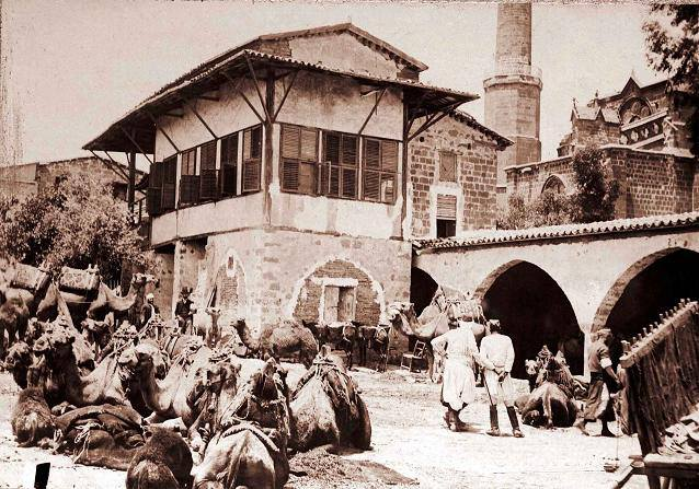 Deveciler Hanı, Nicosia, by Camille Enlart, 1901.